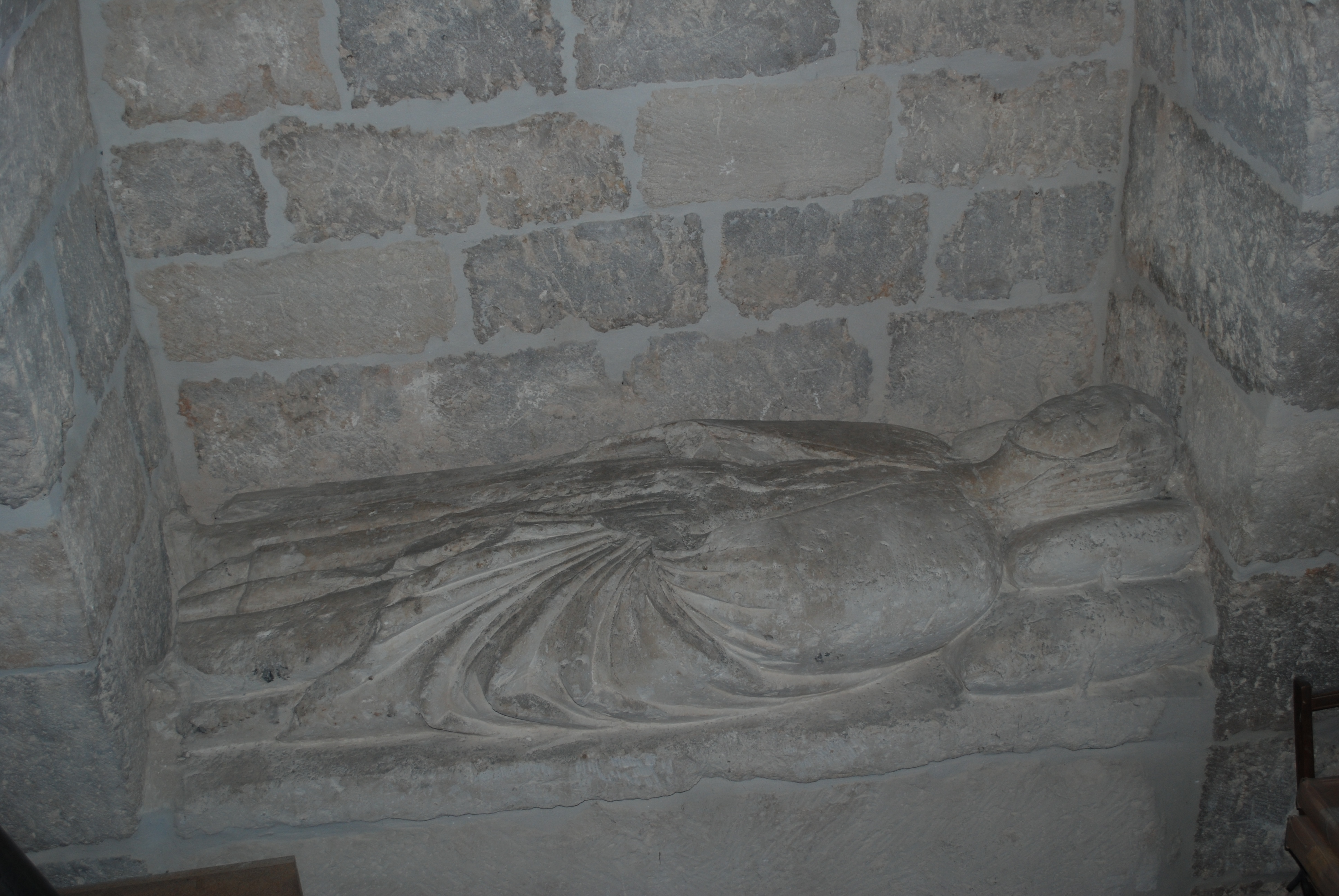 Sepulcher of the queen Eleanor of Castile (1307-1359), daughter of Ferdinand IV of Castile and wife of the king Alfonso IV of Aragon. Iglesia de Nuestra Señora del Manzano of Castrojeriz, province of Burgos, (Spain).